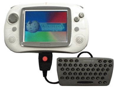 GP32 Front-Lit Unit with Ericsson Chatboard, owned by taras